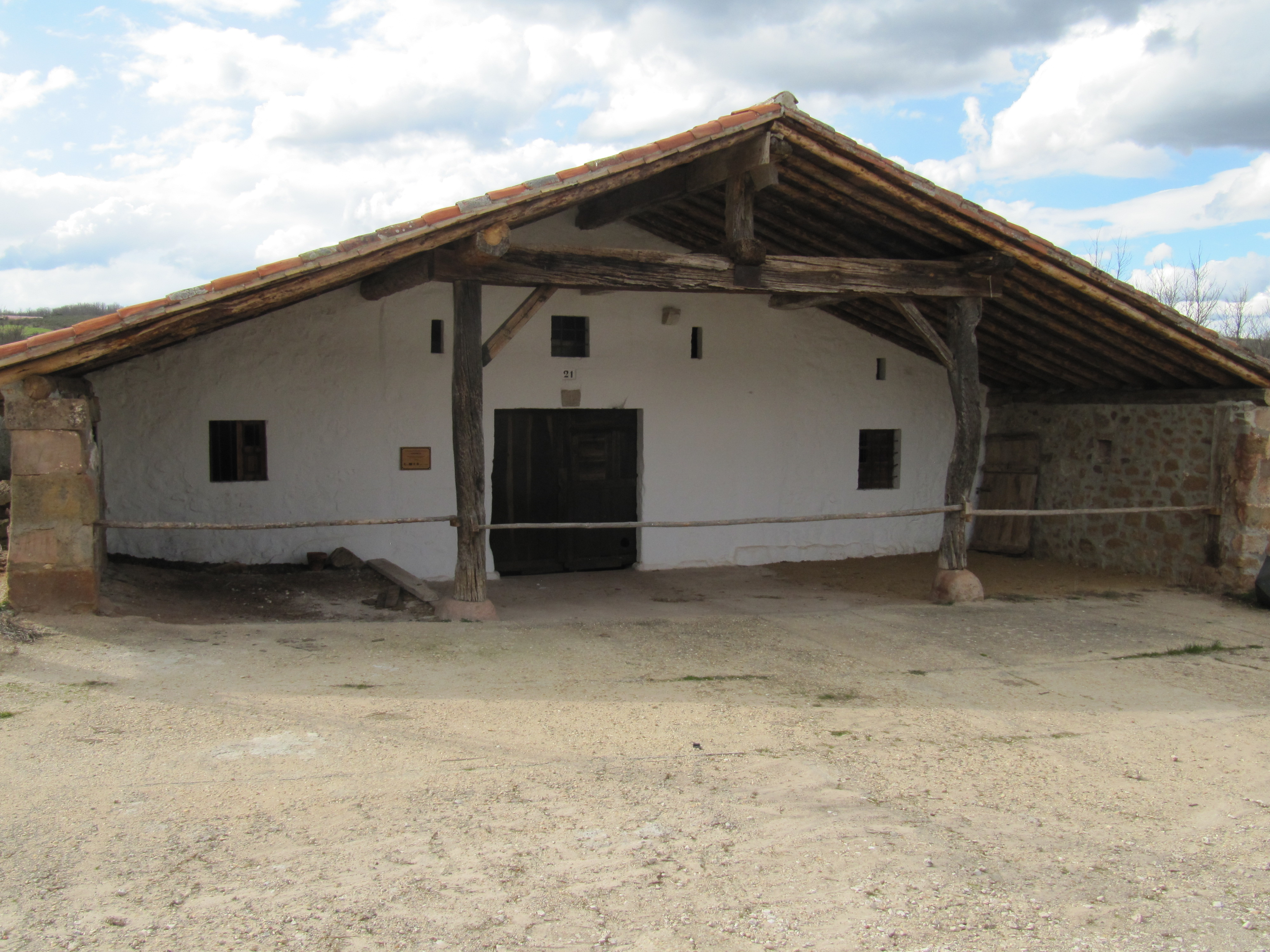 Casa Carretera en la Aldea del Pinar, Hontoria del Pinar